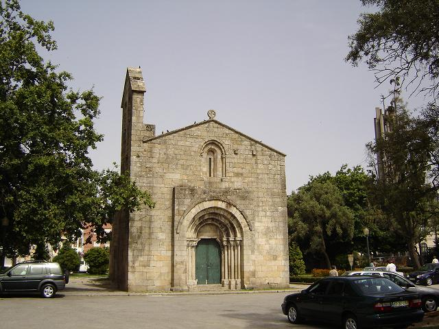 São Martinho de Cedofeita church. Located at freguesia of Cedofeita, Porto, Portugal.